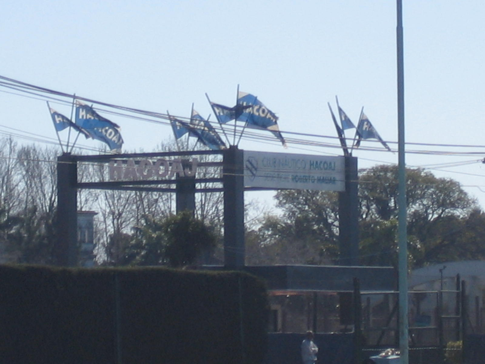 Club Náutico Hacoaj - El Tigre - Buenos Aires - Argentina